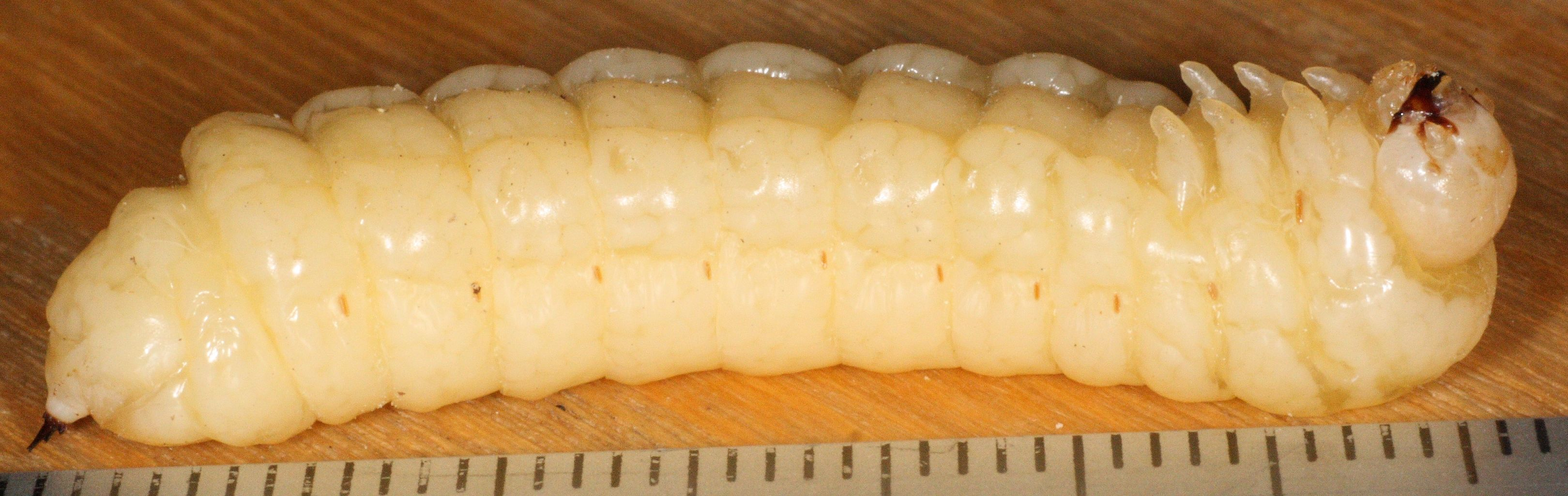 Larvae of Giant Woodwasp (Urocerus gigas), 43 mm long